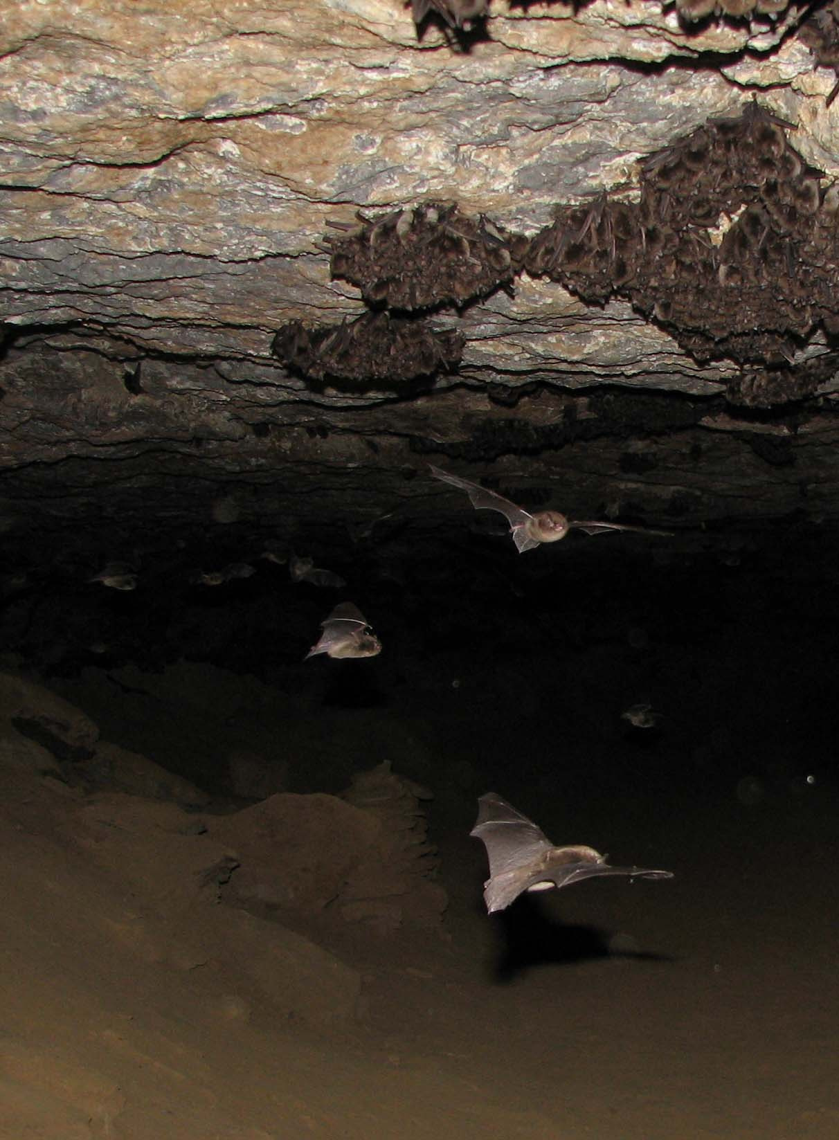 Credit: USFWS; Andrew King